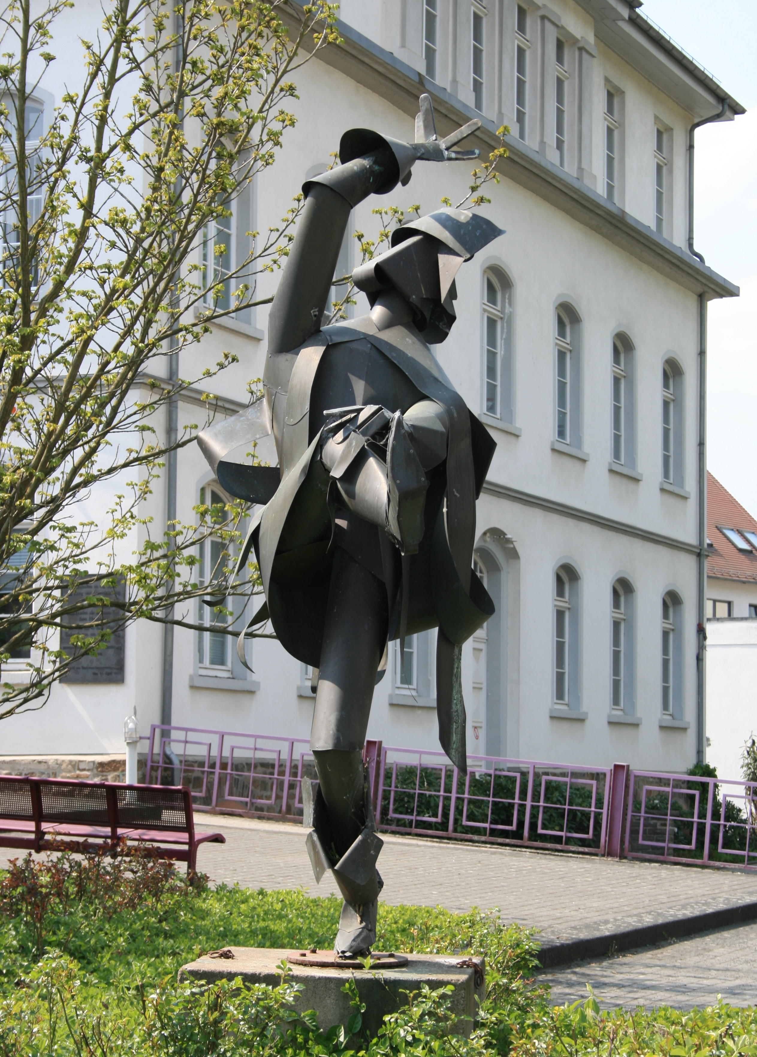 Germany, Hesse, Biedenkopf/Lahn: sculpture "Troubadour", made by Annemarie Gottfried-Frost in front of the townhall